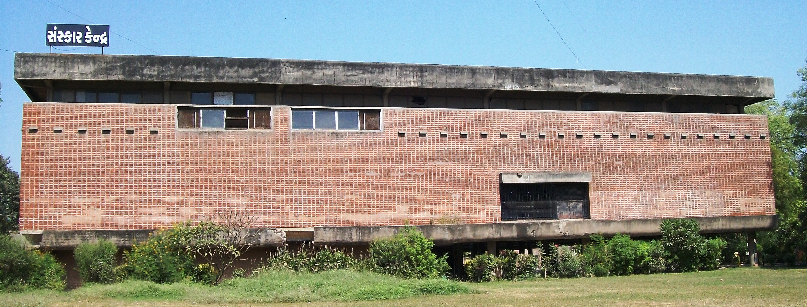 Museum at Ahmedabad, India housing City Museum depicting history, art, culture and architecture of Ahmedabad and Kite Museum, designed by Le Corbusier